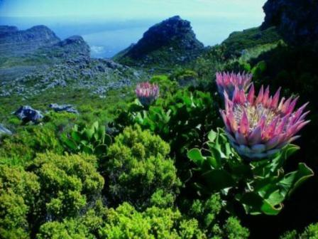 Peninsula Sandstone Fynbos with King Protea. Photo taken on Table Mountain, Cape Peninsula, Cape Town.